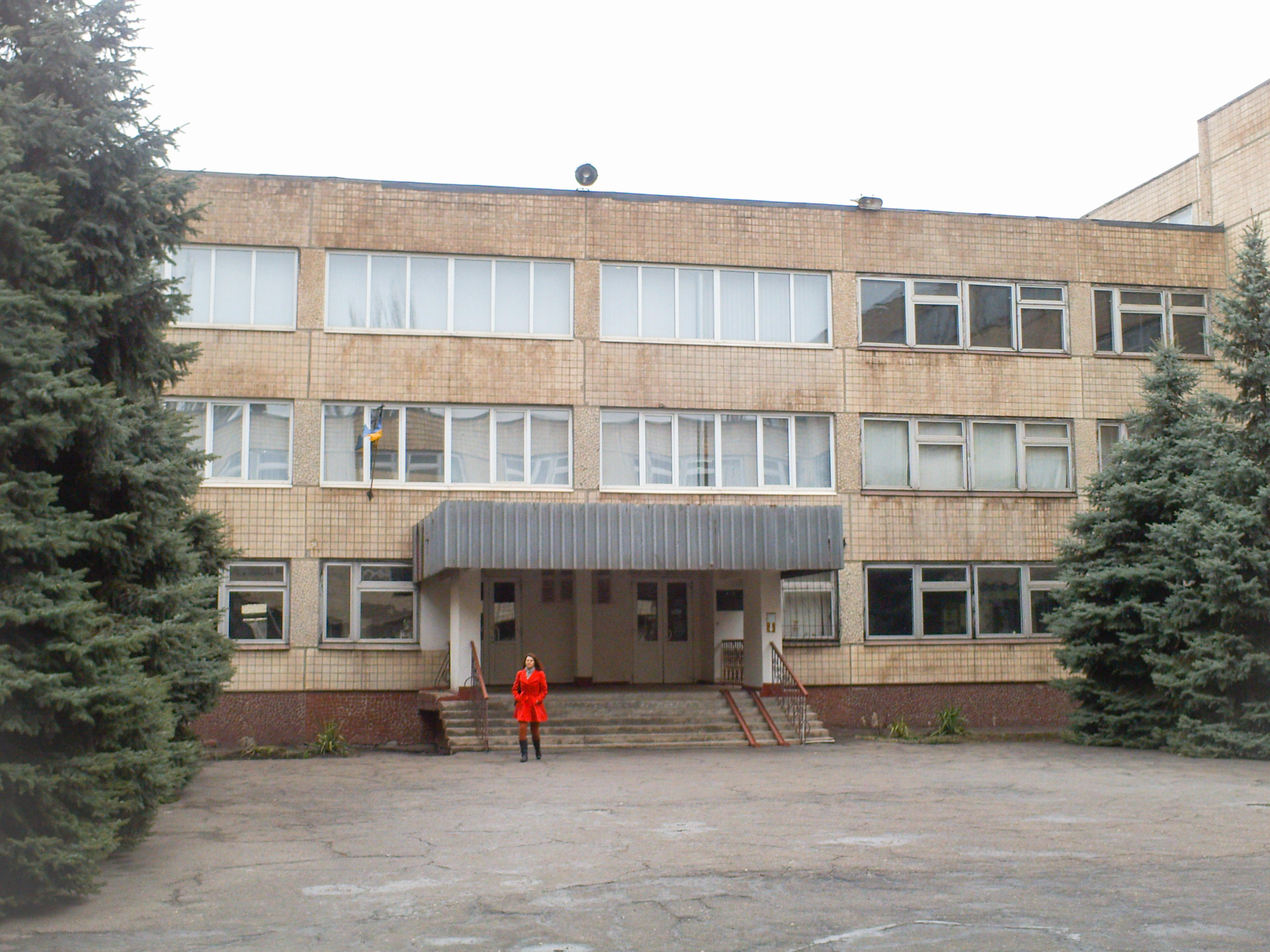 Криворізький державний педагогічний університет